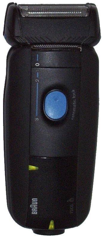 Electric shaver "Braun Syncro 7505".